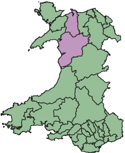 East Gwynedd Area of Search